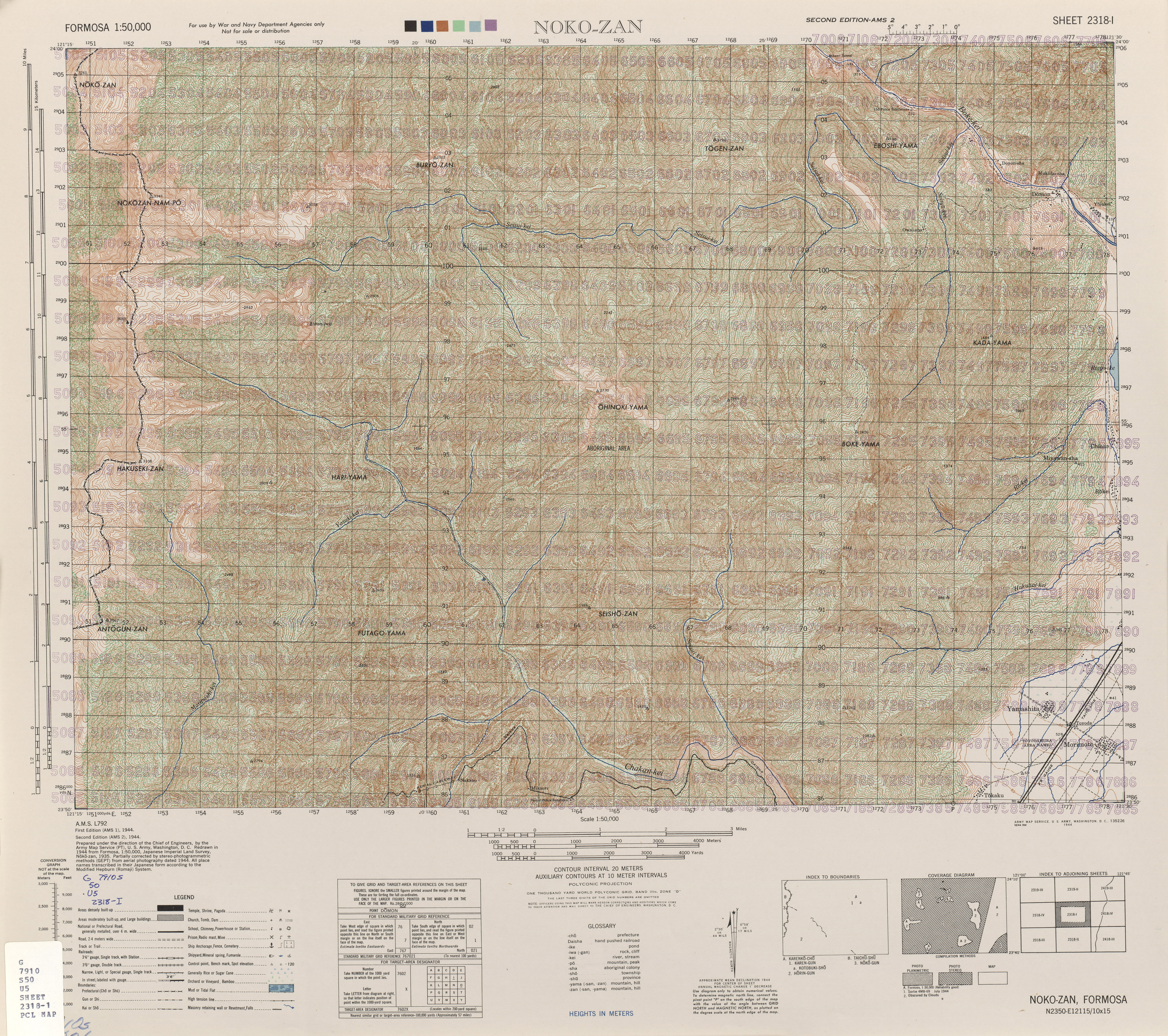 Map from Formosa (Taiwan) 1:50,000 AMS Series L792